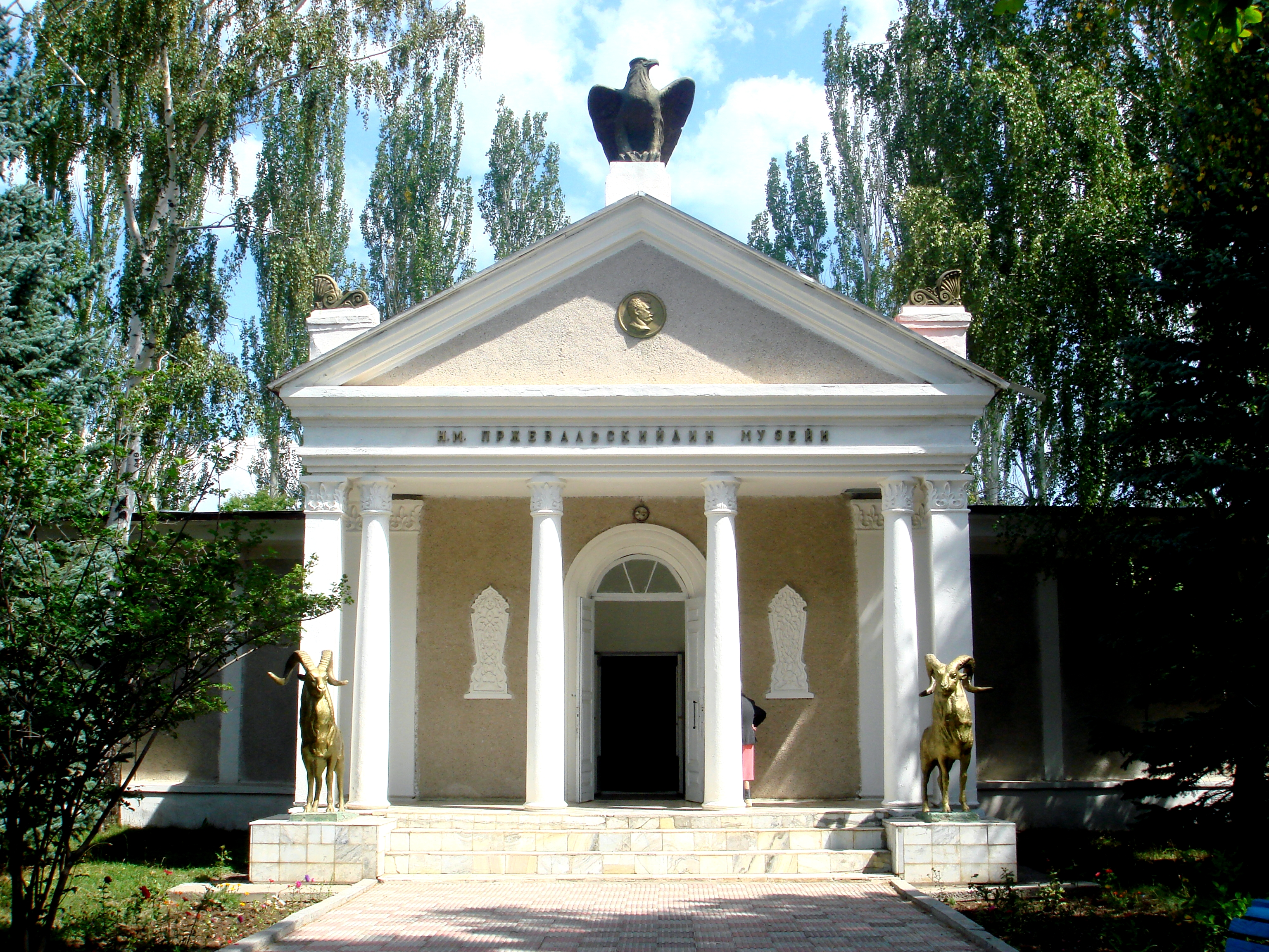 Museum in the premises of Przhevalsky Memorial near Pristan Przhevalsk dedicated to Russian explorer Nikolai Mikhaylovich Przhevalsky (Issyk Kul Province, Kyrgyzstan).